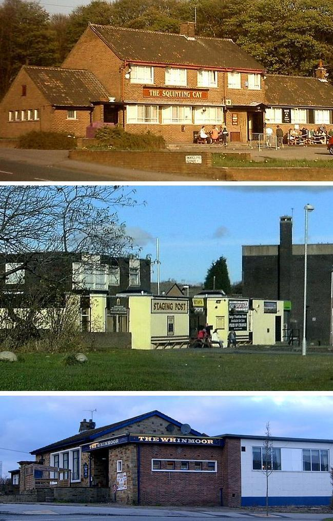 The Squinting Cat public house in Swarcliffe, Leeds, West Yorkshire, UK.